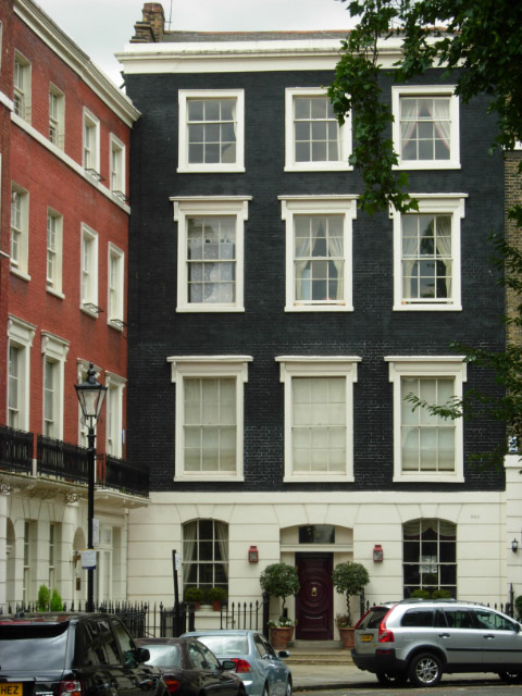 Connaught Square Connaught Square, tucked away in the 'V' created by Edgware Road and Bayswater Road, is an exclusive residential area with houses currently selling for in excess of £3 million. It has achieved some fame lately as the new home of the Blair family since they vacated Downing Street. There were a number of armed police around (out of camera shot) providing security.